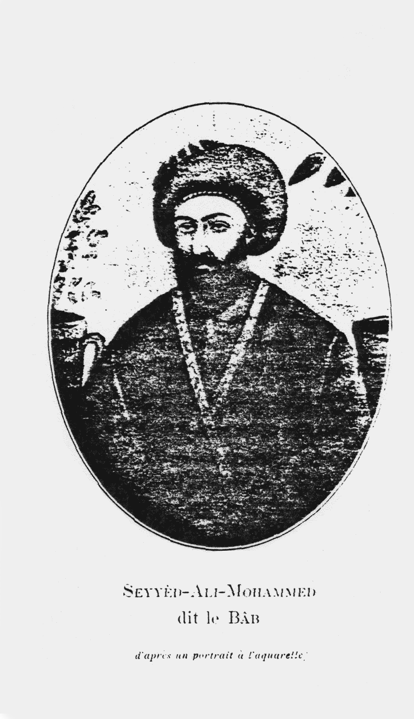 Image of "Seyyed Ali Mohammed dit le Bâb" in Louis Alphonse Daniel Nicolas book Seyyed Ali Mohammed dit Le Bâb In Balyuzi, H.M. (1973) The Báb: The Herald of the Day of Days, Oxford, UK: George Ronald ISBN 0853980489, opposite page 16 this image is reproduced, stating: "Hájí Siyyid Kázim-i-Rashtí - This photograph [sic] was mistakenly identified as one of the Báb by Nicolas in his book Seyyed Ali Mohammed dit le Báb."